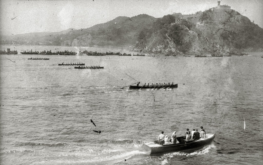 Flag of La Concha